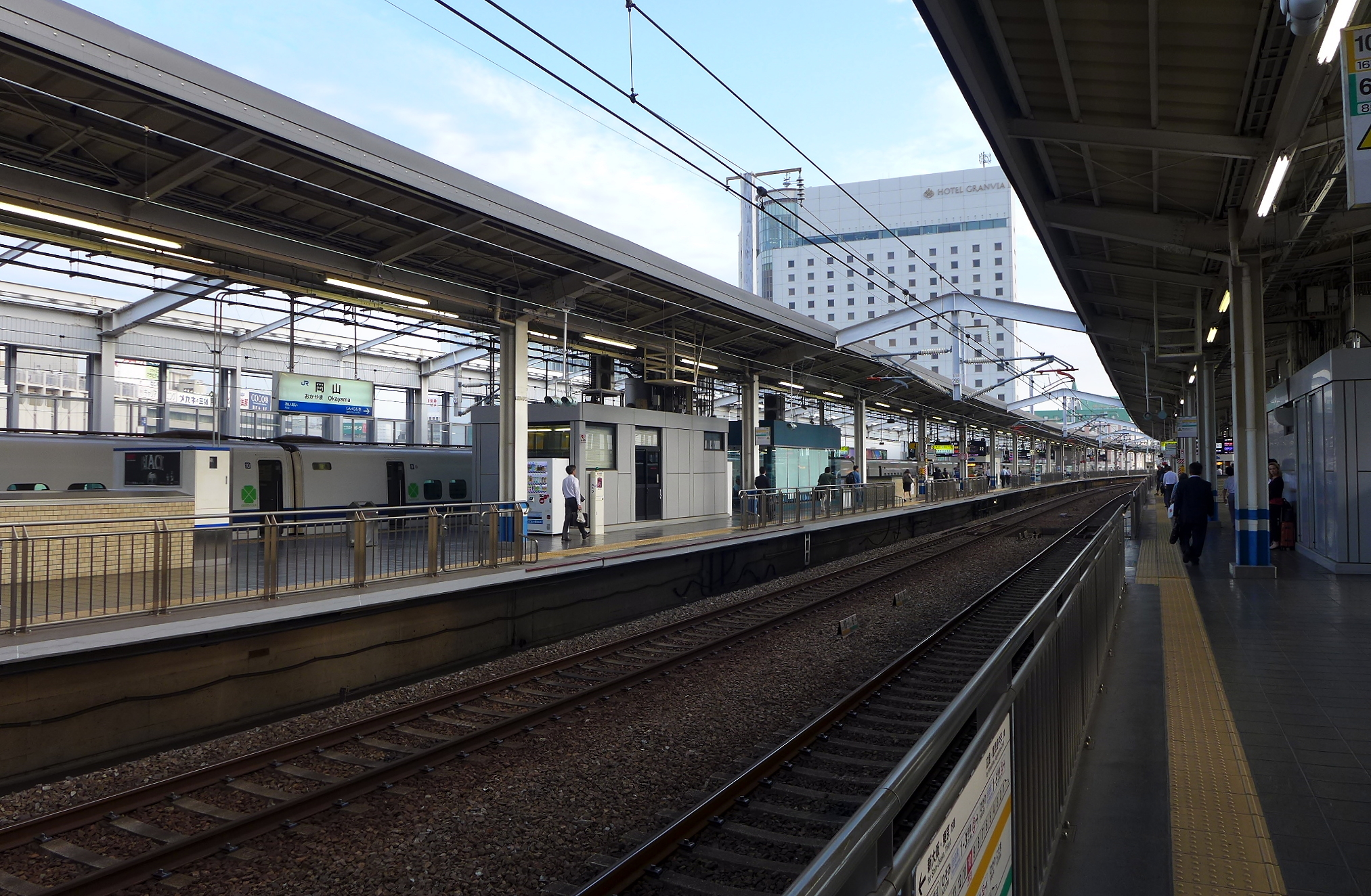 The shinkansen platforms at Okayama Station